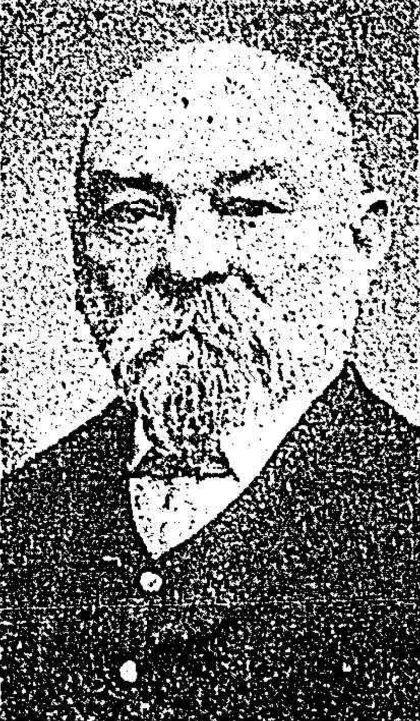 Portrait of Australian sportsman, William Gaggin.